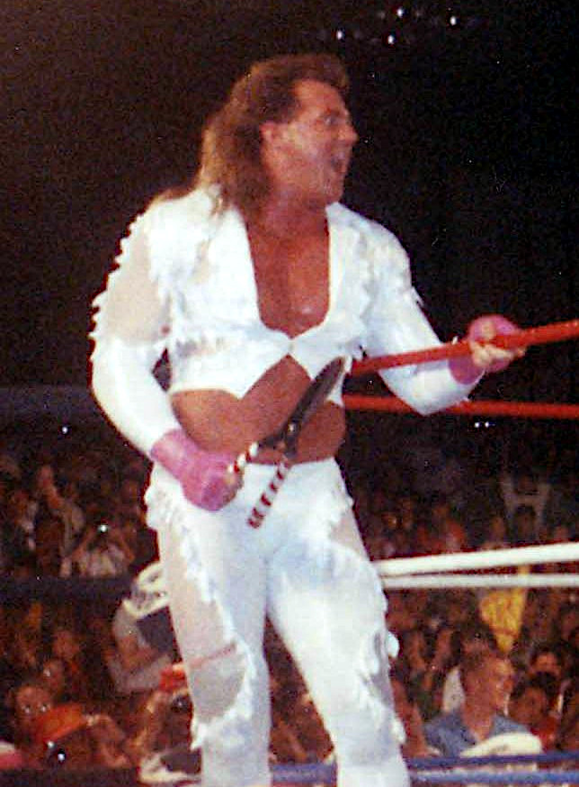 Professional wrestler Edward "Brutus Beefcake" Leslie in his barber gimmick, with accompanying shears with which he would threaten opponents.